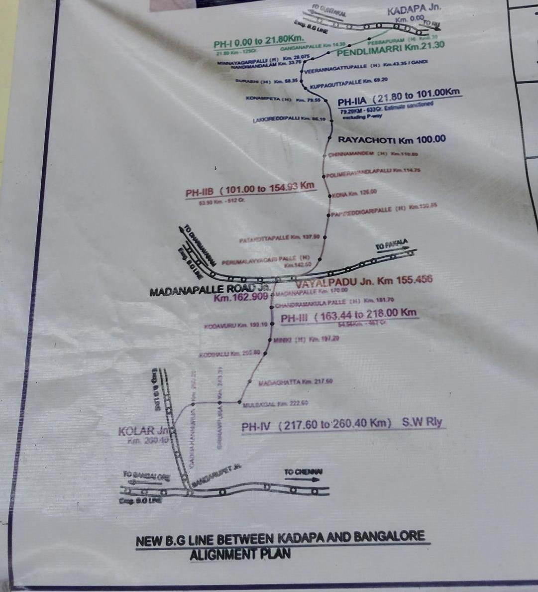 sbc hx line plan